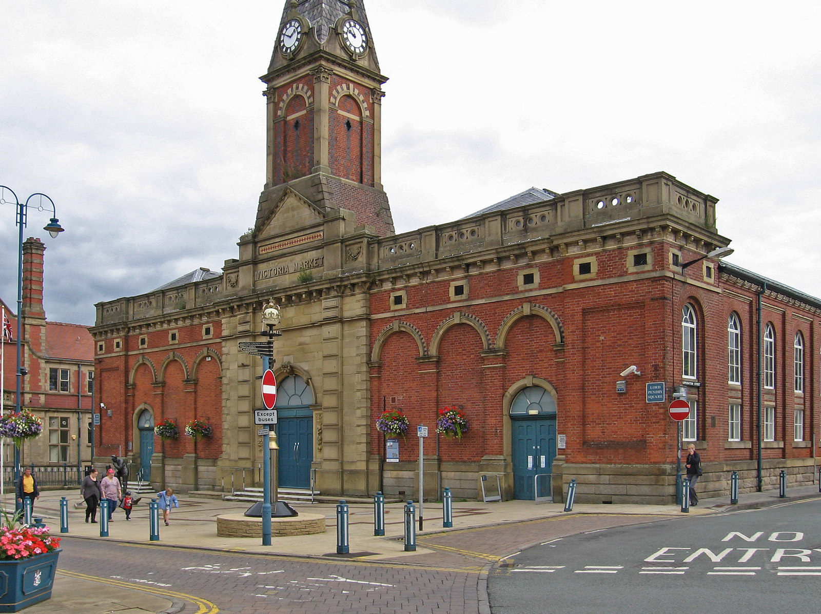 Stalybridge - Market Hall - Trinity Street frontage